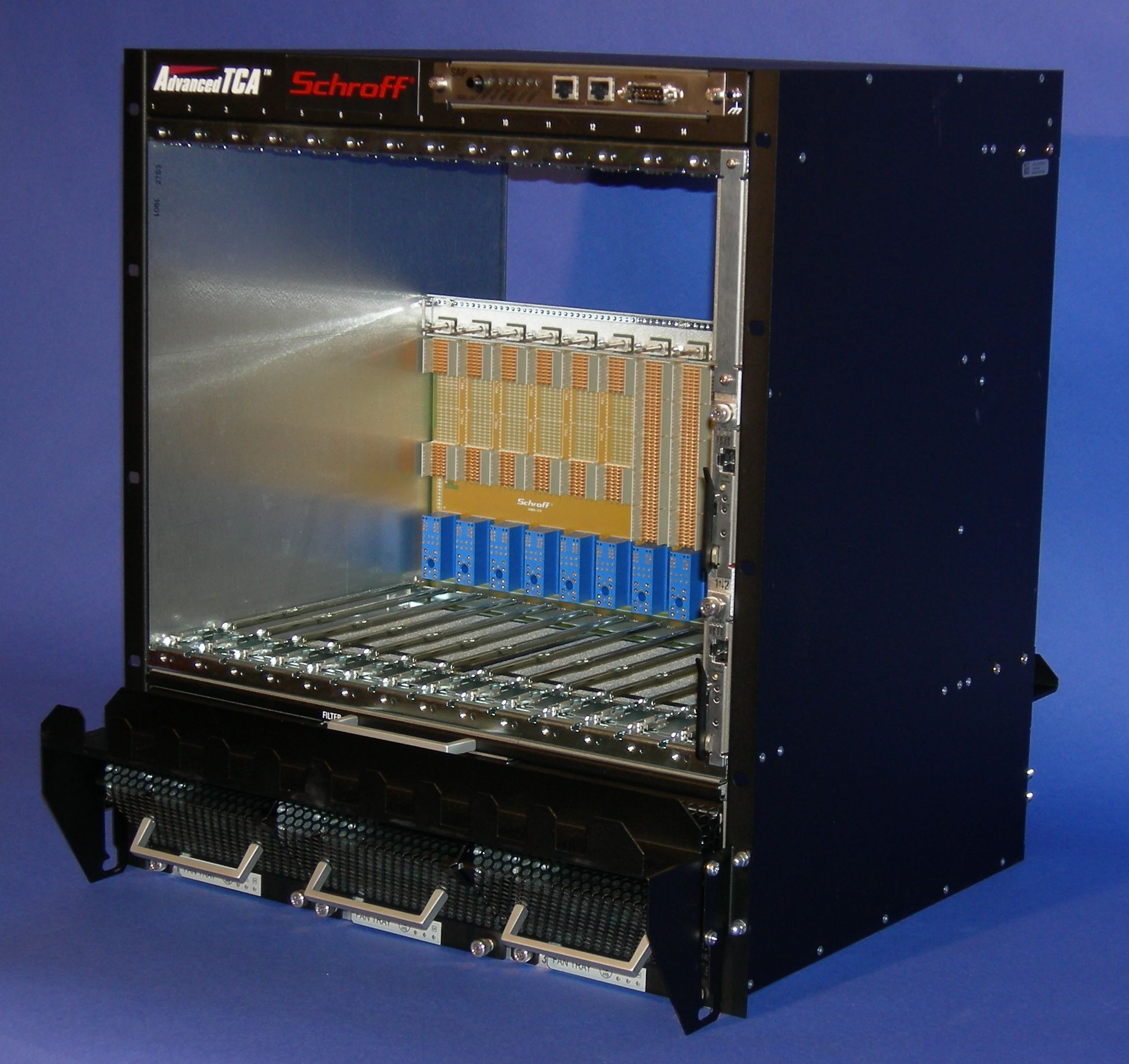 This is an image of a Pentair brand 12U 14 slot ATCA shelf. Please provide attribution to Pentair Electronic Packaging.